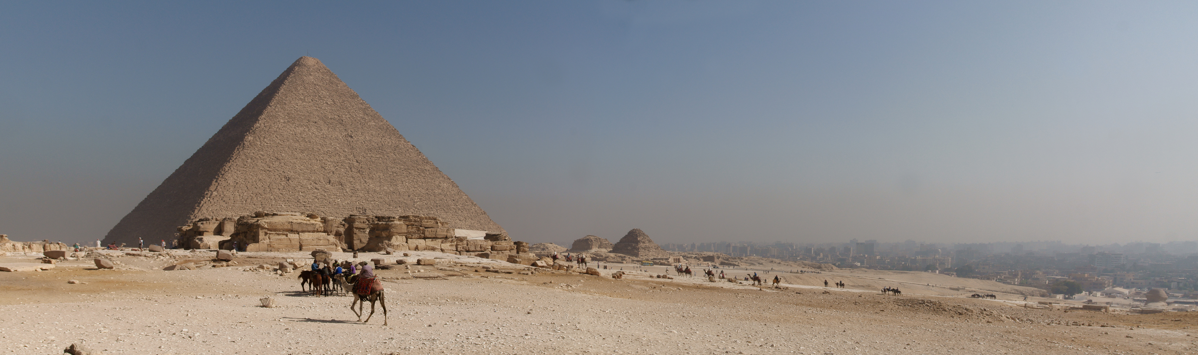 Panorama with Great Pyramid of Giza.